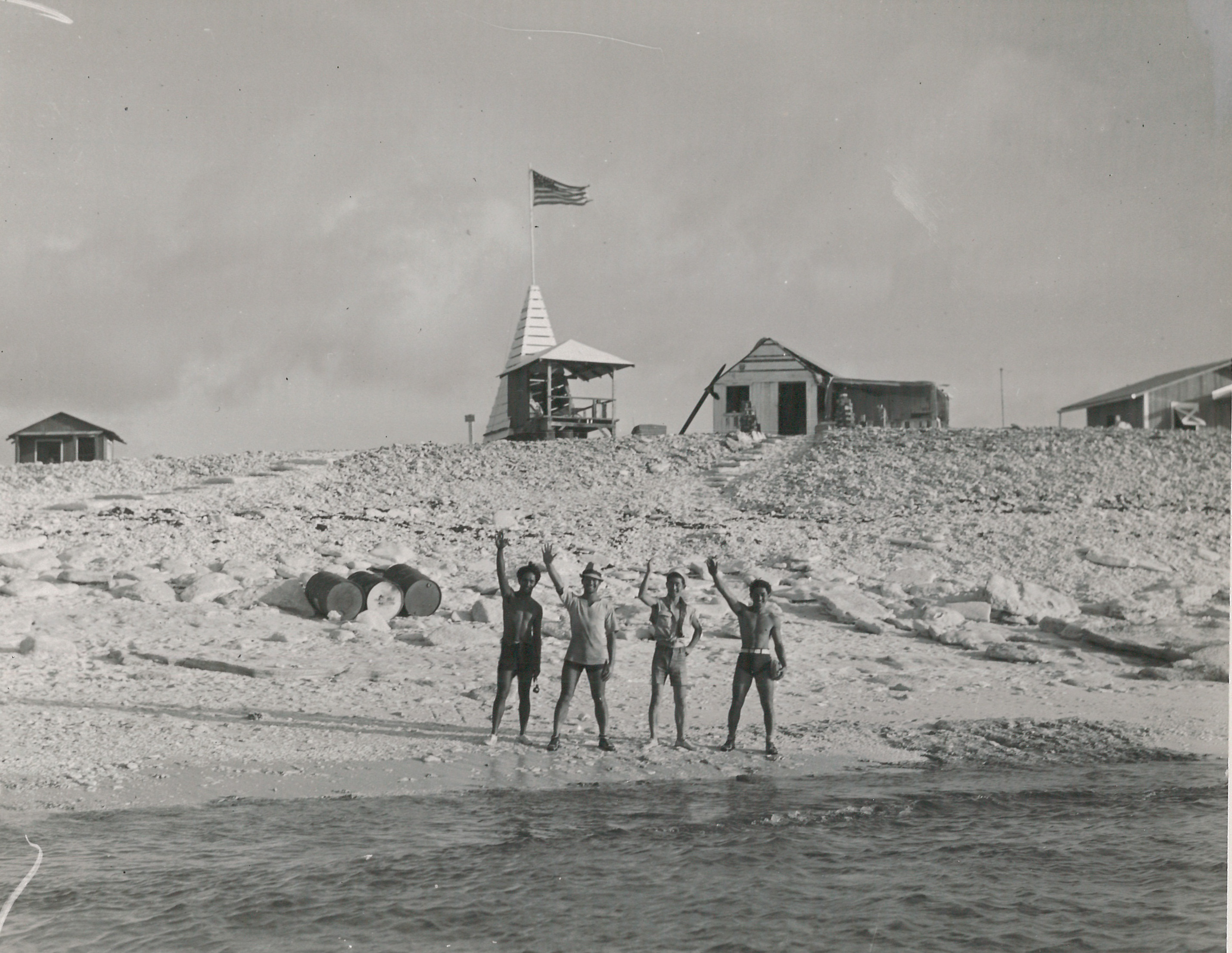 Four men—Joseph Kim, Charles Ahia, Bak Sung Kim, and Edward Young—wave goodbye to the departing ship at the beginning of their tour as colonists during the American Equatorial Islands Colonization Project.